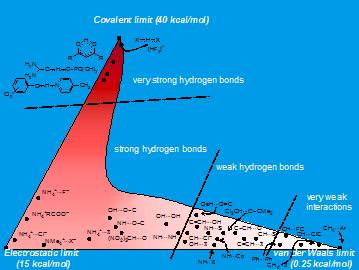 Sketch of Hydrogen bonds